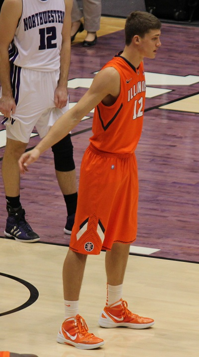 Meyers Leonard at Welsh-Ryan Arena in Evanston, Illinois on January 4, 2012.